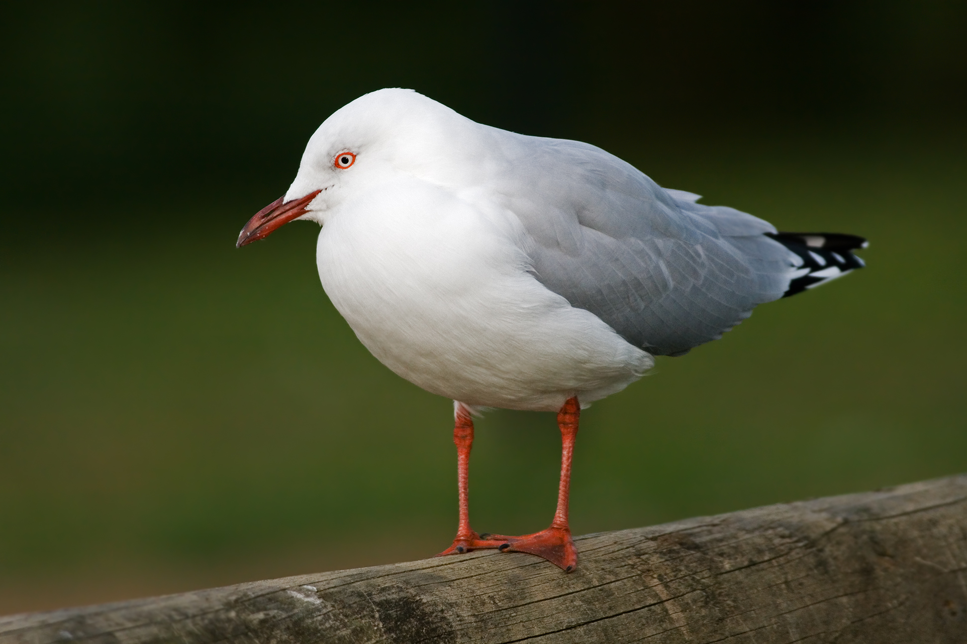 Silver Gull (Chroicocephalus novaehollandiae) Camera data Camera Canon EOS 400D Lens Canon EF 400mm f5.6L Flash Fill w/ Fresnel Extender Focal length 400 mm Aperture f/5.6 Exposure time 1/400 s Sensivity ISO 400